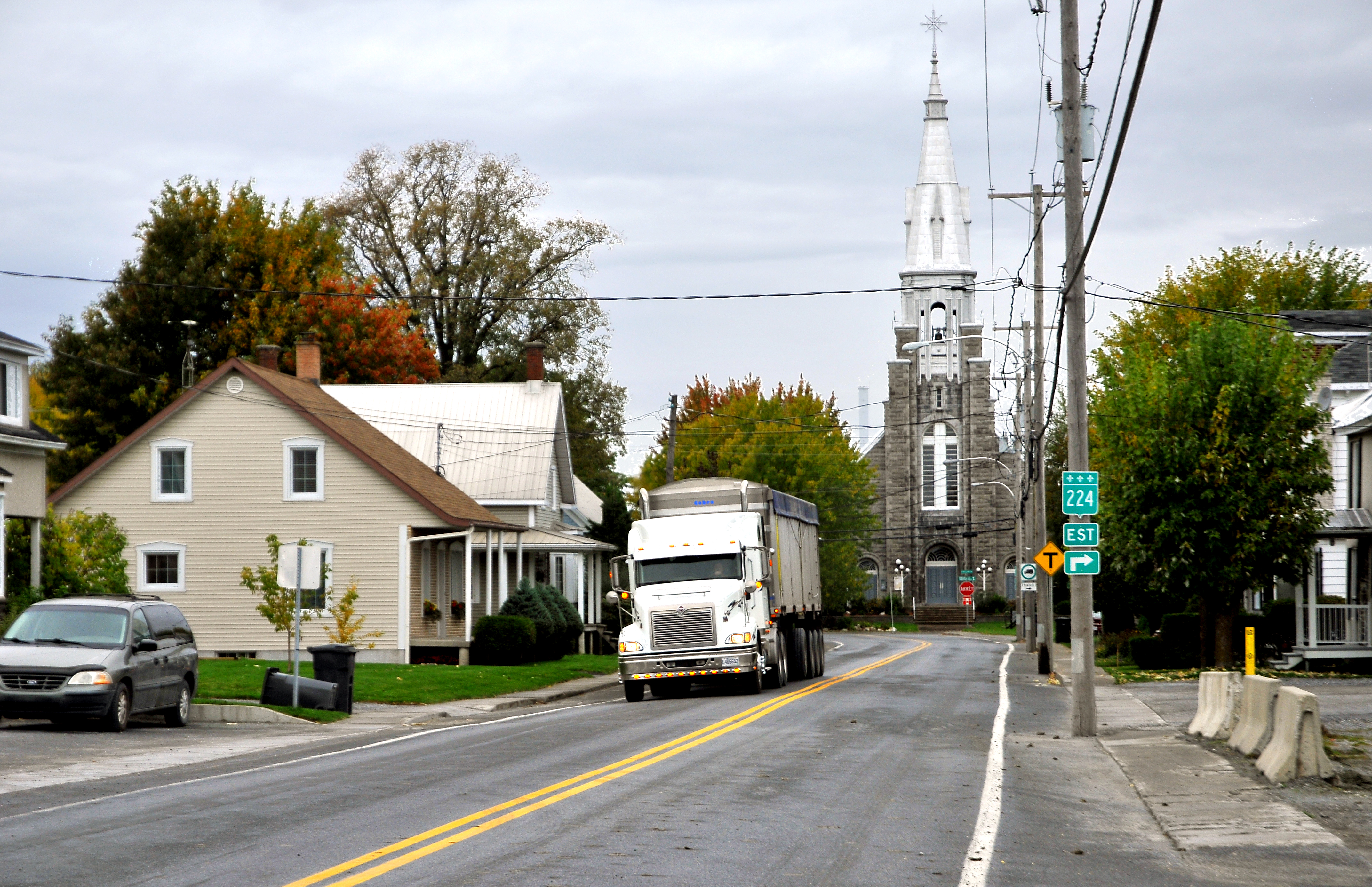 Heavy traffic in the 224 road (Rang Saint-Édouard). Saint-Simon, Les Maskoutains, Montérégie, Quebec, Canada